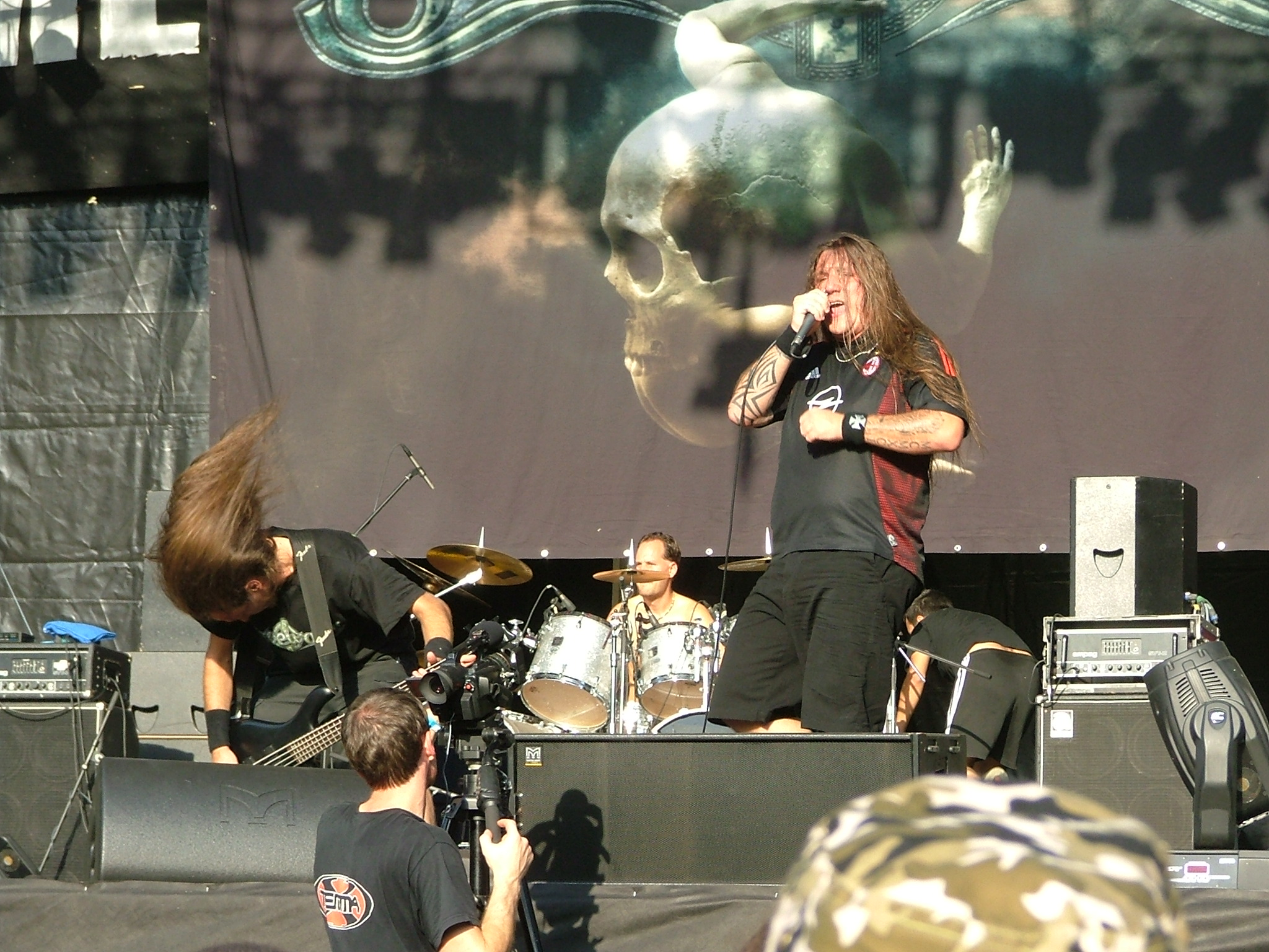 Italian dark metal band Graveworm at the Metalcamp in Tolmin